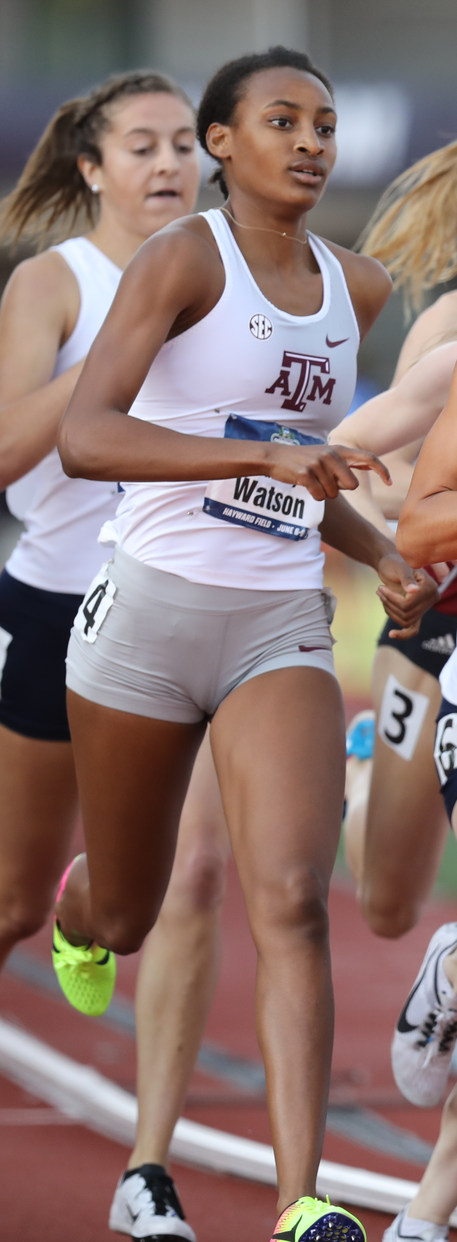 2018 NCAA Division I Outdoor Track and Field Championships